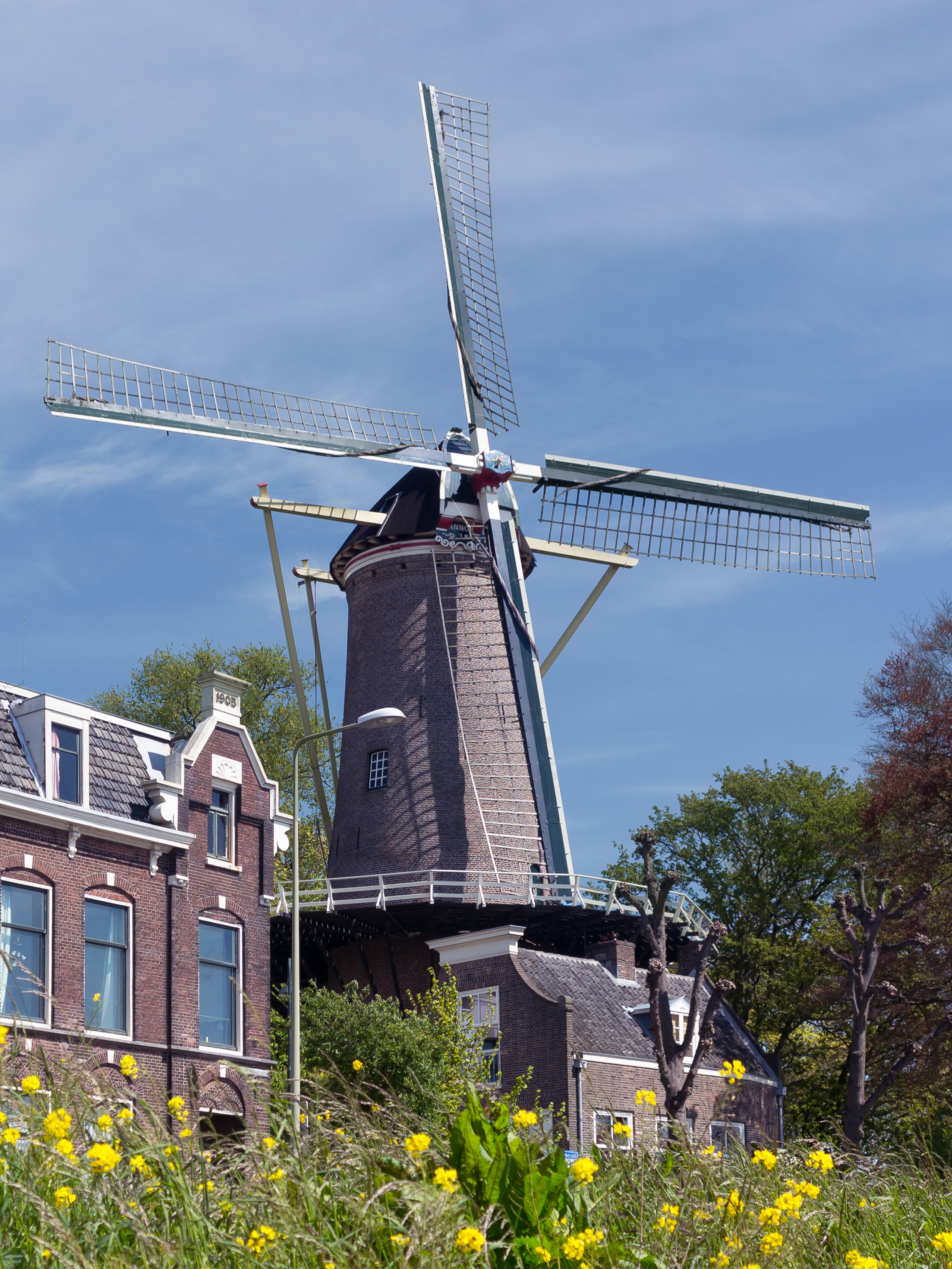 Gouda, windmill: molen 't Slot